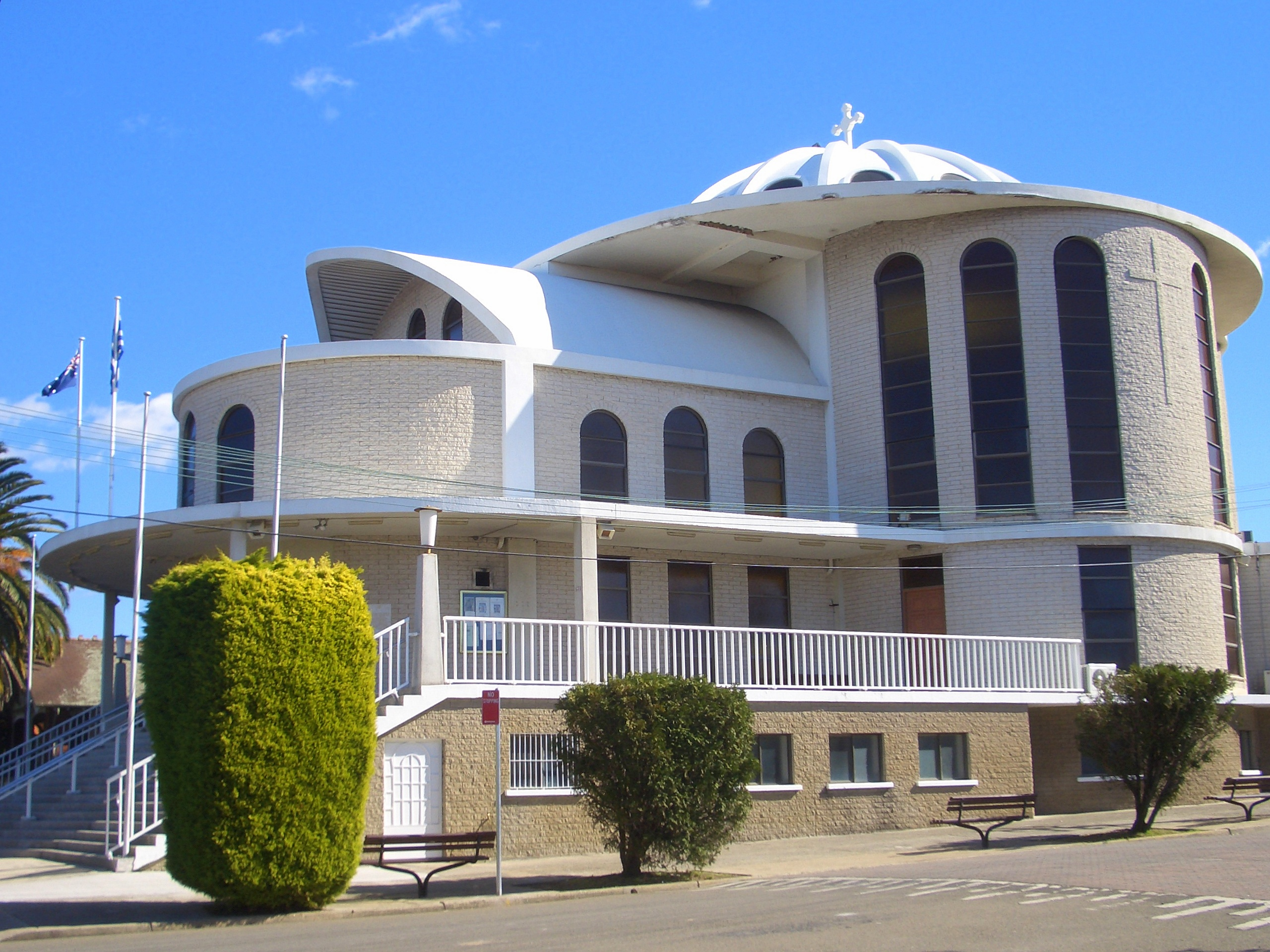 All Saints Greek Orthodox Church, Belmore, Sydney (image has been altered by User:Sardaka to remove tilt, 2015-12-24)